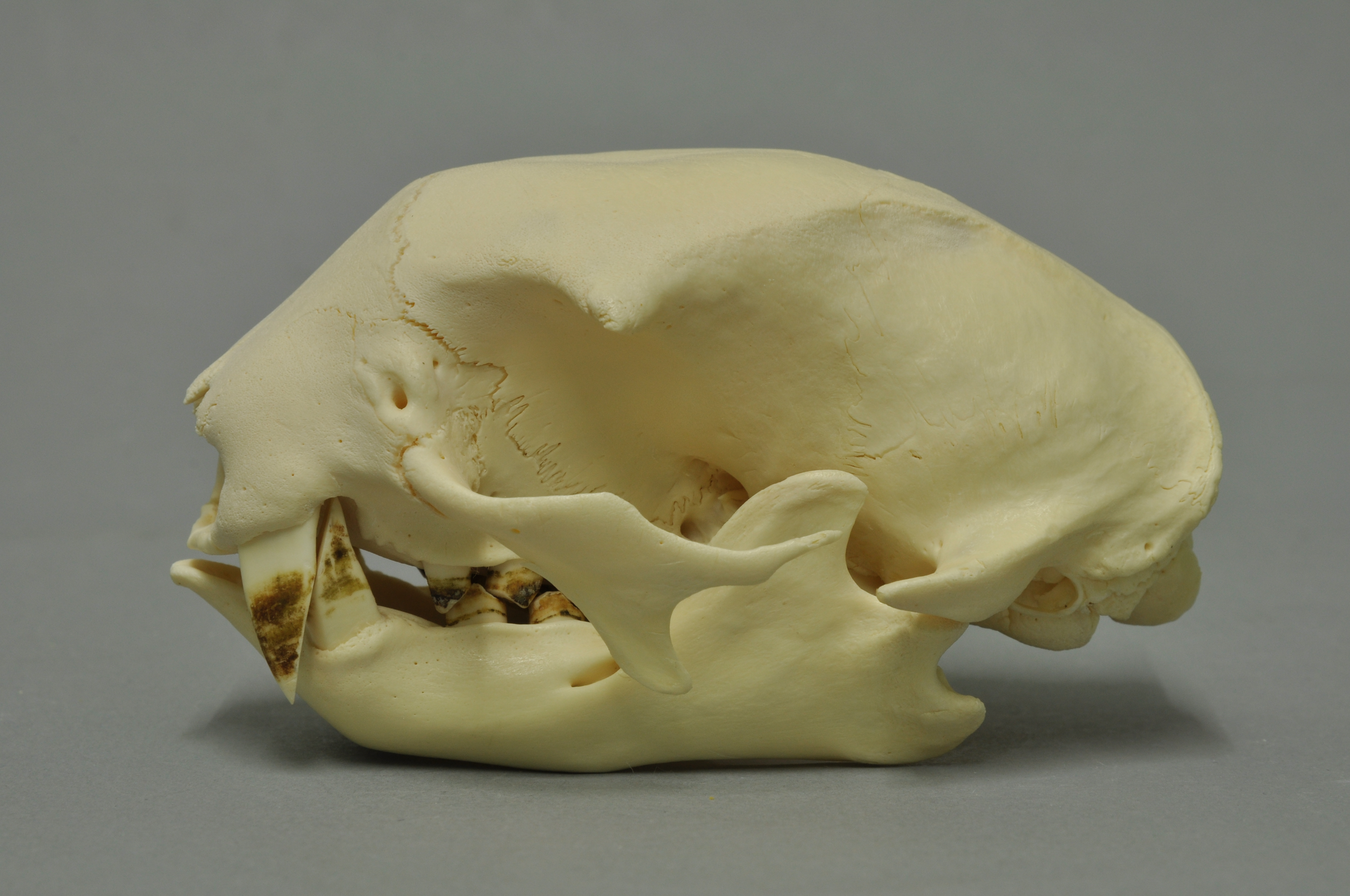 Hoffmann's two-toed sloth Choloepus hoffmanni, skull, Coll. Museum Wiesbaden